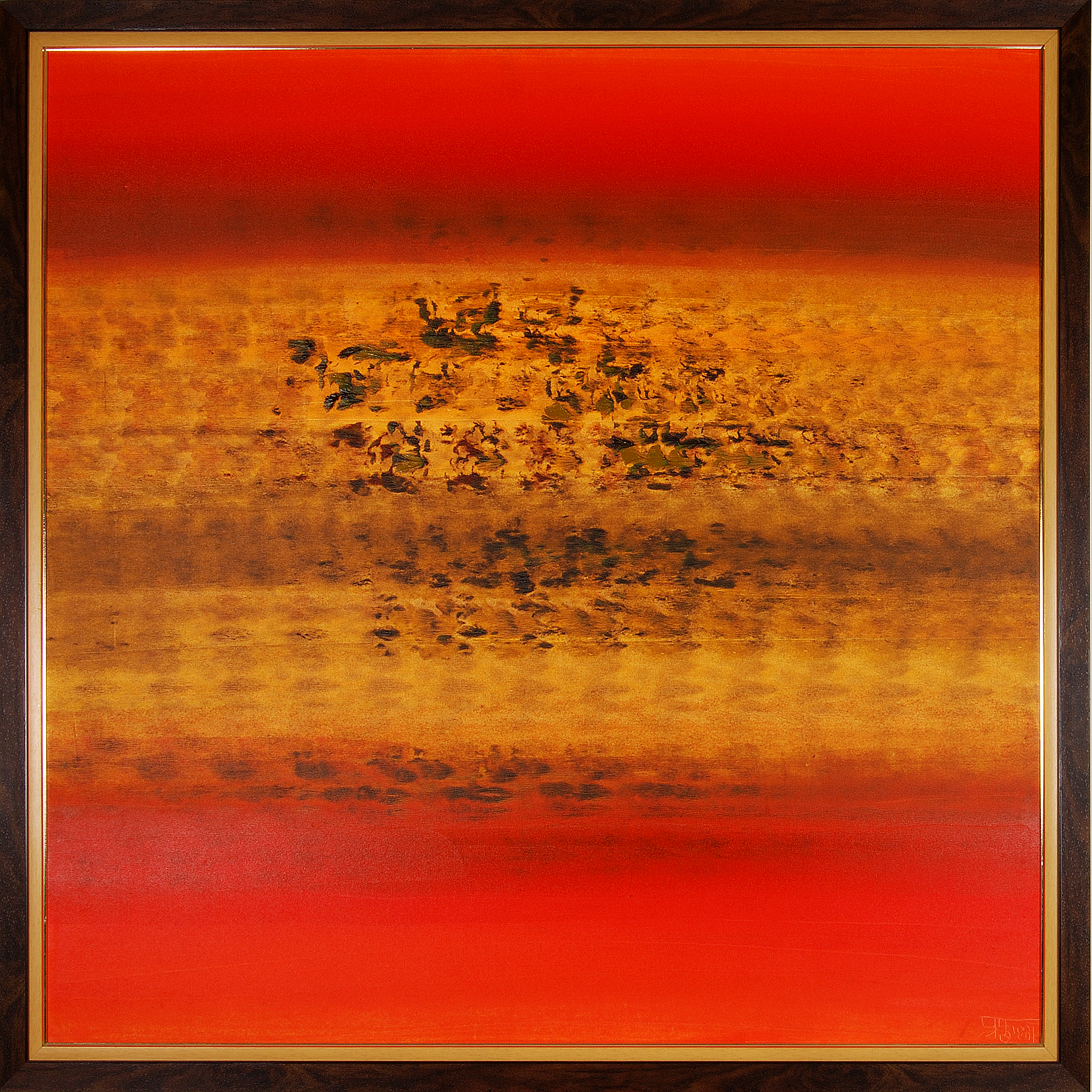 Oil on Canvas